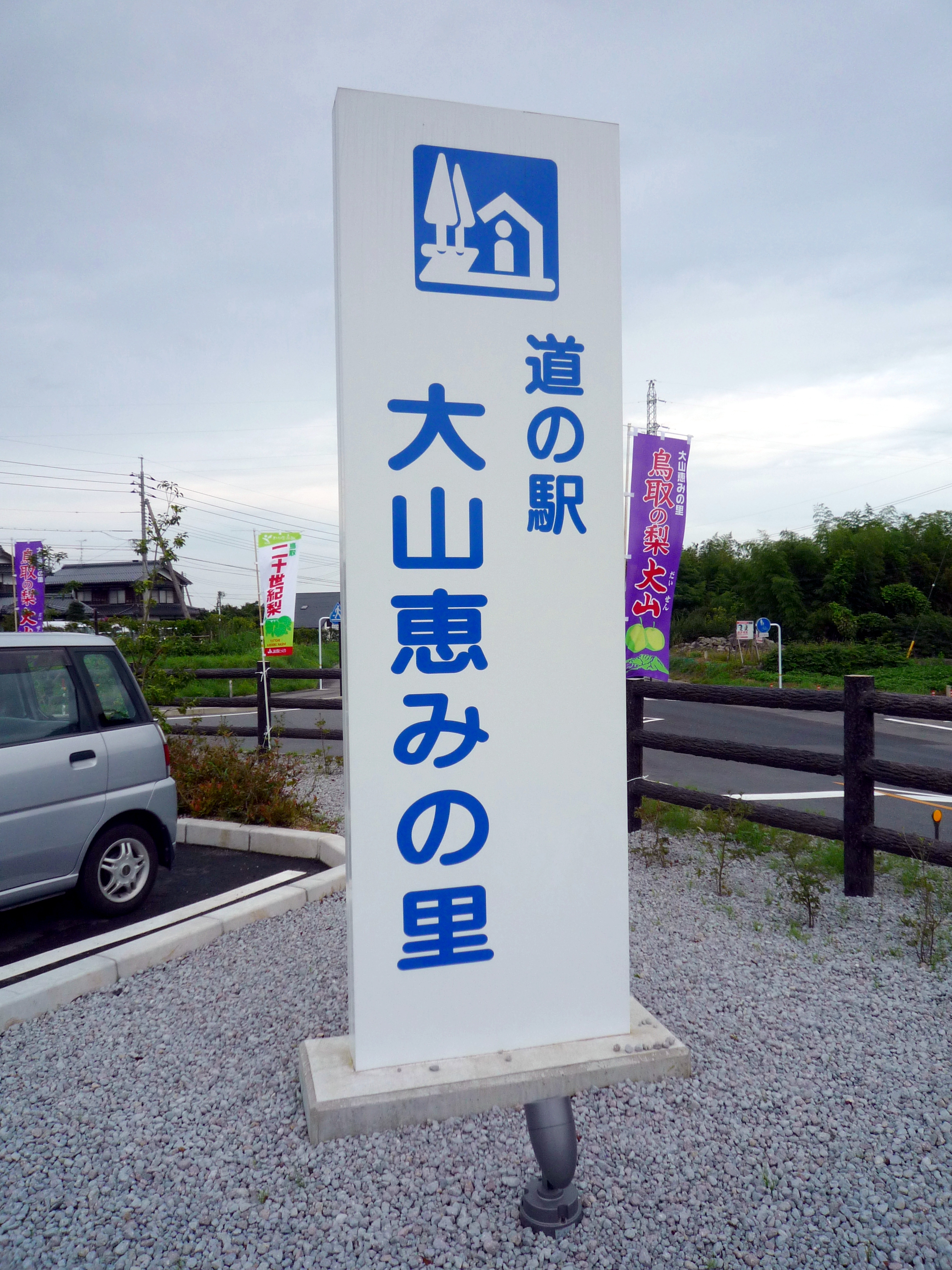 Station name board of Roadside Station Daisen Megumi-no-Sato at Daisen Town, Saihaku District, Tottori Prefecture.